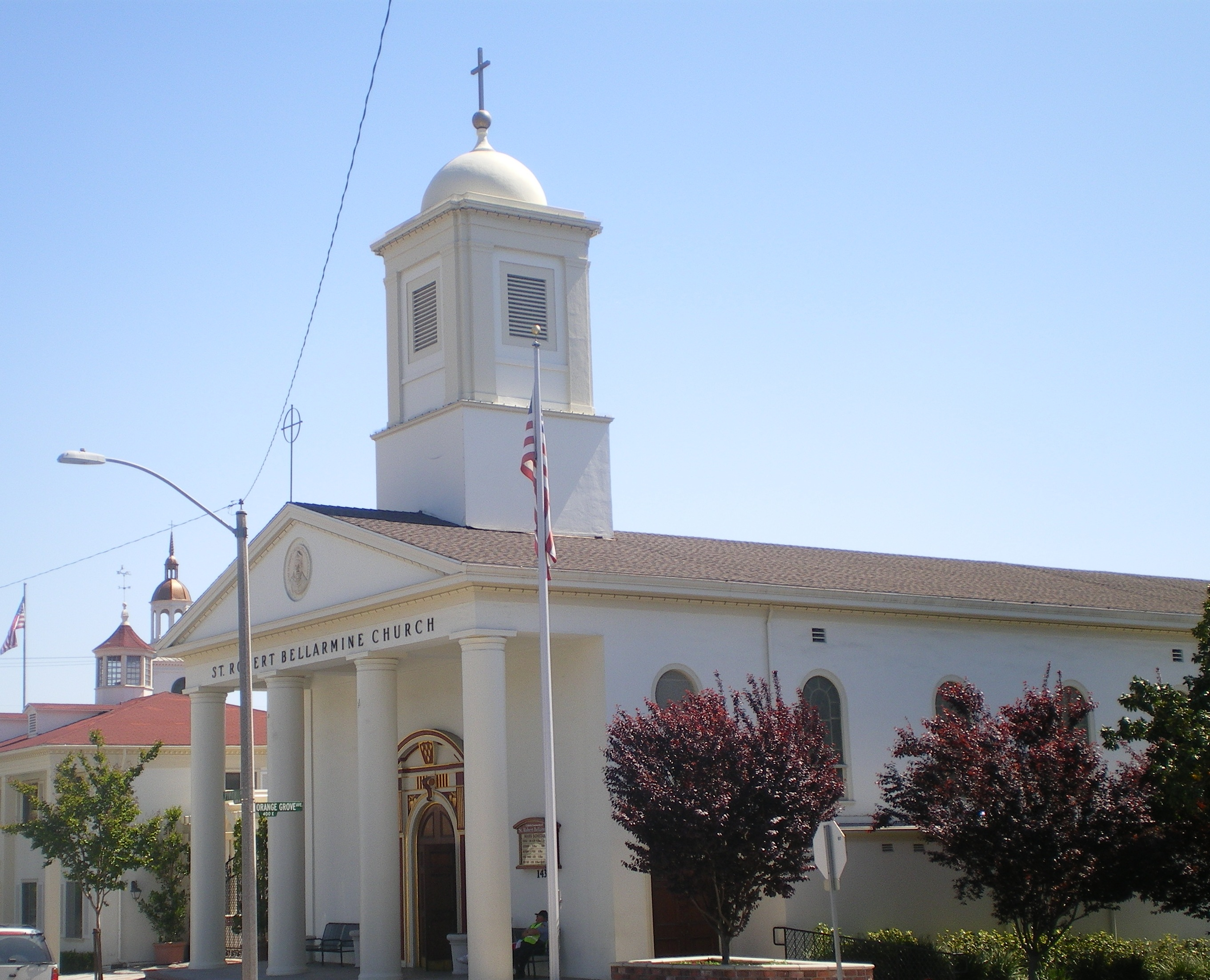 St. Robert Bellarmine Catholic Church, Burbank, California